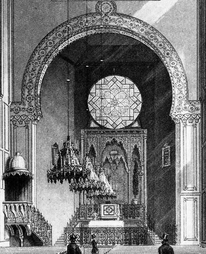 Synagoge Leipzig (synagogue of Leipzig) Magnification